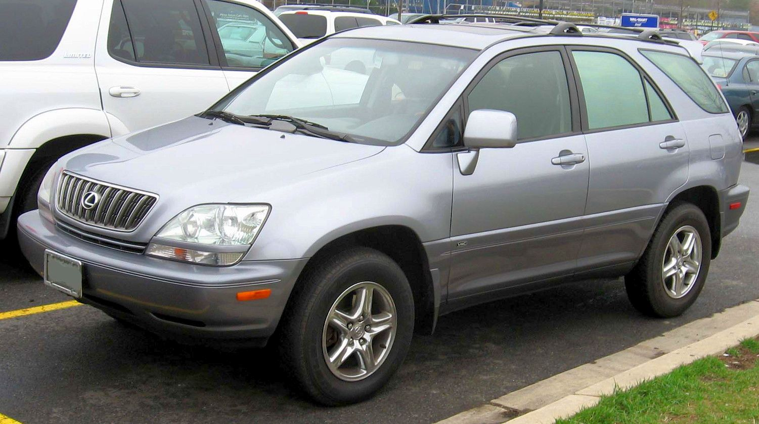 Lexus RX300 photographed in USA.